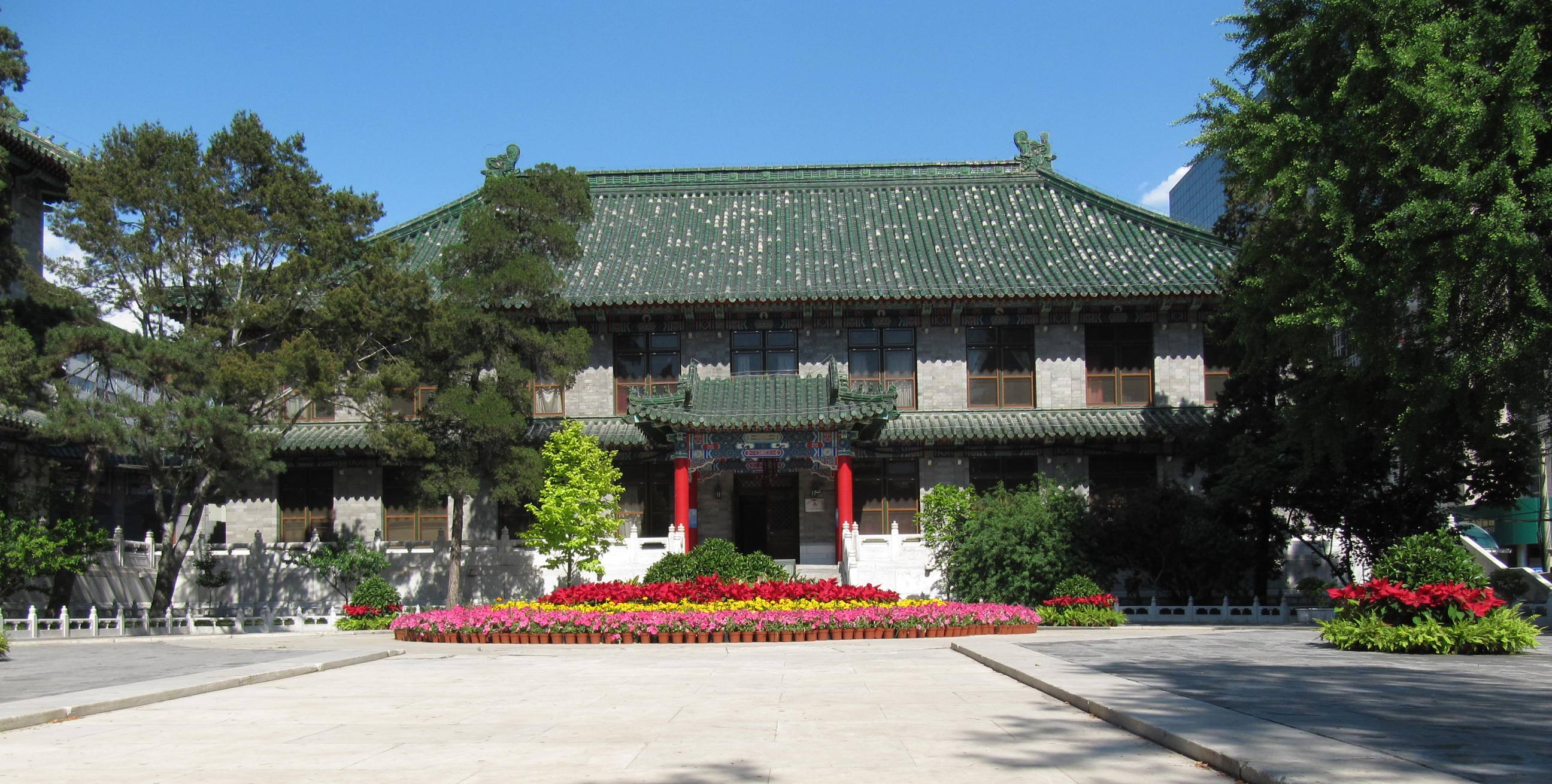 The old buildings of the Peking Union Medical College Hospital in Beijing.